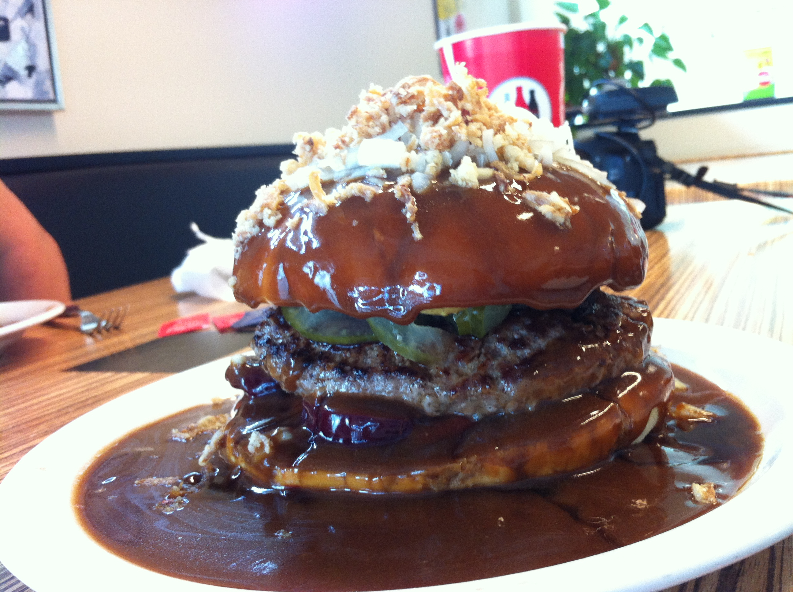 A bøfsandwich (literally translates to 'beef sandwich' - sometimes dubbed gravy burger by non-Danes), is the classic Danish take on a hamburger. It contains the hamburger elements of a cooked ground beef patty placed inside a sliced bread roll.